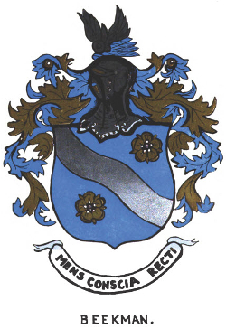 Rev. Gerard Beekman (1558-1625) took a prominent part in the support of the principles of the new Dutch church and was chosen one of the delegates to visit the Duke of New Berg, the Elector of Brandenburg and James I to secure their support in behalf of the reformed religion. His mission executed with so much credit to himself, James I caused the coat of arms of the Beekman family to be remodeled, to "a rose on either side of a running brook".